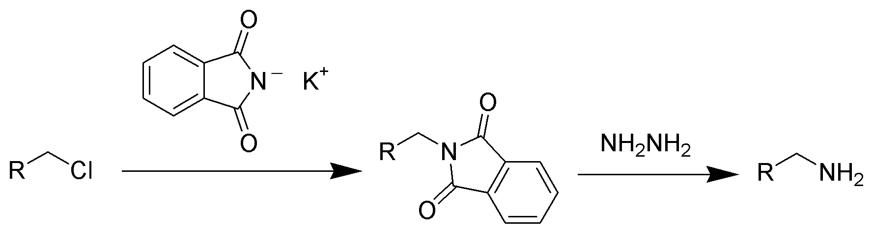 Description: Reaction scheme of the Gabriel synthesis. Author, date of creation: selfmade by ~K, 30 October 2005. Source: - Copyright: Public domain. (PD) Comments: high-resolution b/w PNG; ChemDraw / The GIMP.